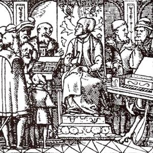 Tielman Susato offers his Chanson book to Maria of Hungary, governess of the Netherlands, woodcut from "vingt et six chansons musicales & nouvelles", printed in Antwerp by Tielman Susato, in 1545.